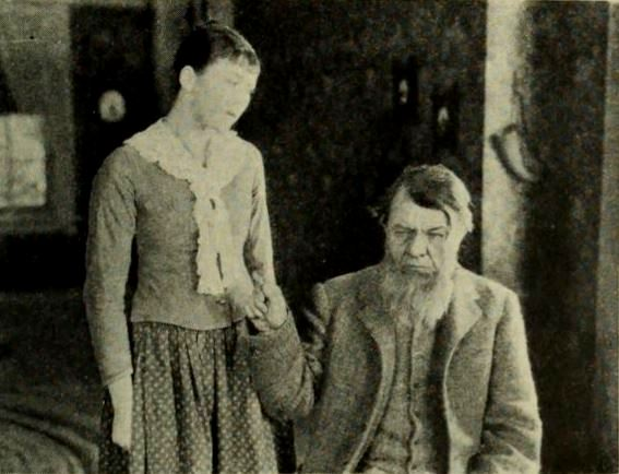 Still from the American film The Old Homestead (1922) with Fritzi Ridgeway and Theodore Roberts, on page 63 of the December 1922 Photoplay.